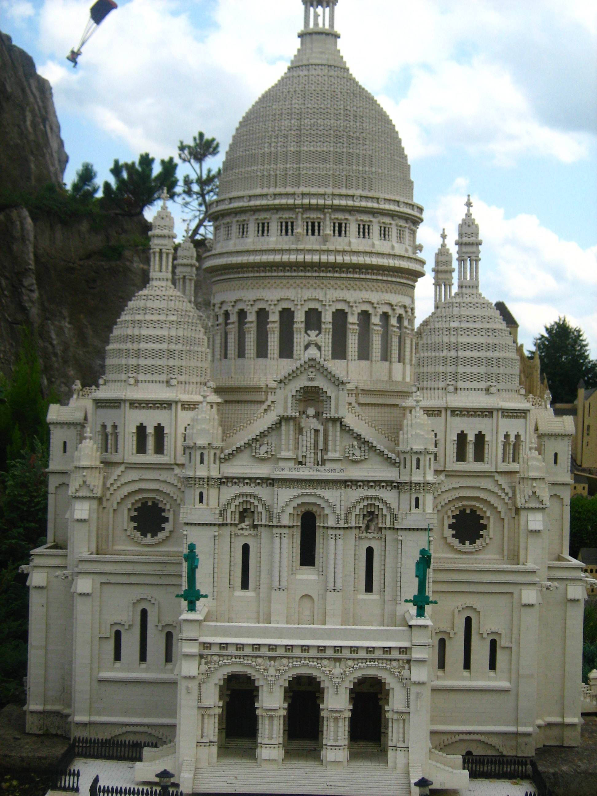 Model of Basilique du Sacré-Cœur (Front View) in Miniland, Legoland Windsor